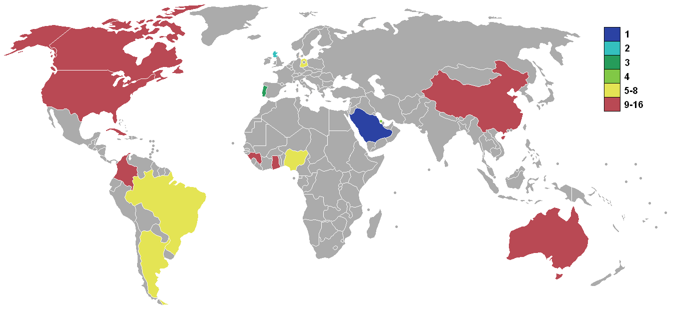 1989 FIFA U-16 World Championship